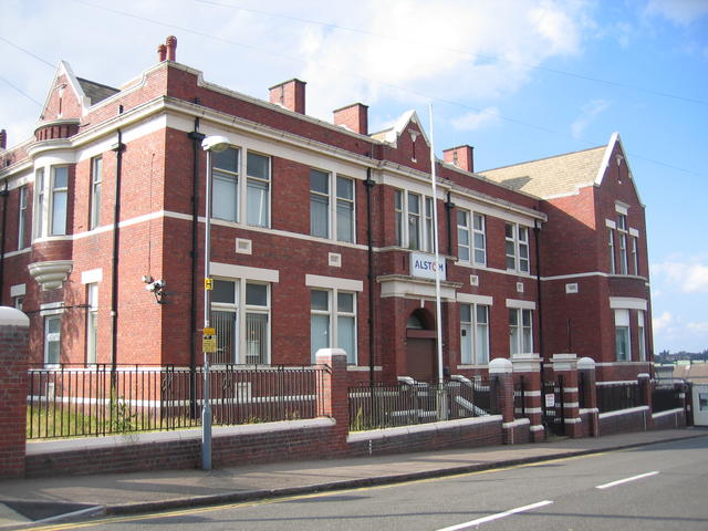 Metro Cammell Carriage & Wagon Works Main Office Block. This was the main office block of the Metro Cammell works in Washwood Heath. Railway vehicles designed and built here continue to serve not only British railways but also railways around the world including the Hong Kong Mass Transit Railway, the Kowloon Canton Railway and also the Channel Tunnel. The works were taken over by GEC Alsthom in 1989 and later devolved into the Alstom Group. After building the tilting "Pendolino" trains for the West Coast route modernisation the works were closed in 2005.